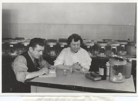 Senior Bacteriologist Sara E. Branham, U.S. National Institute of Health, is inoculating a mouse with meningococcus antiserum to determine whether it will protect against meningitis. Technical Attendant Robert M. Forkish is assisting.